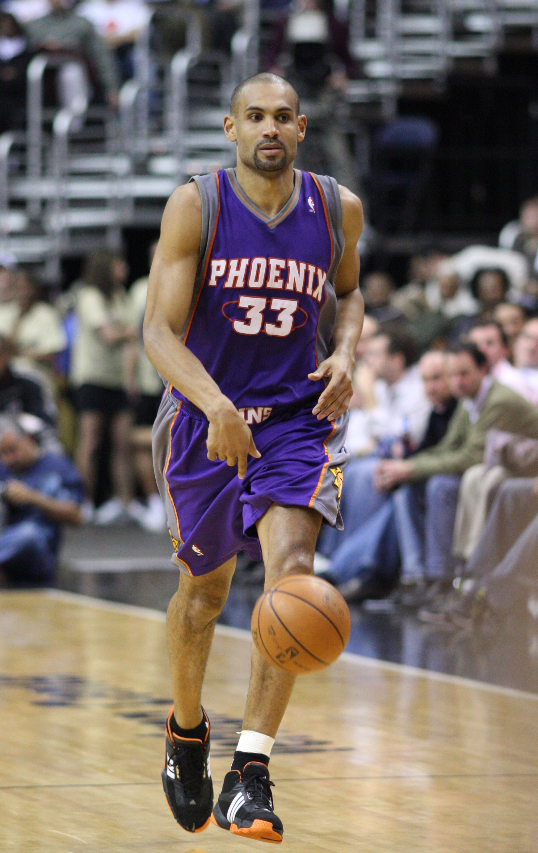 Grant Hill, American basketball player for the Phoenix Suns (at time of photo)